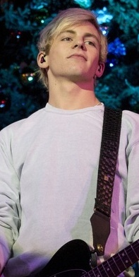 Ross Lynch along with R5 performing at the Citadel's 12th Annual Christmas Tree Lighting, Los Angeles, CA on November 9th, 2013.